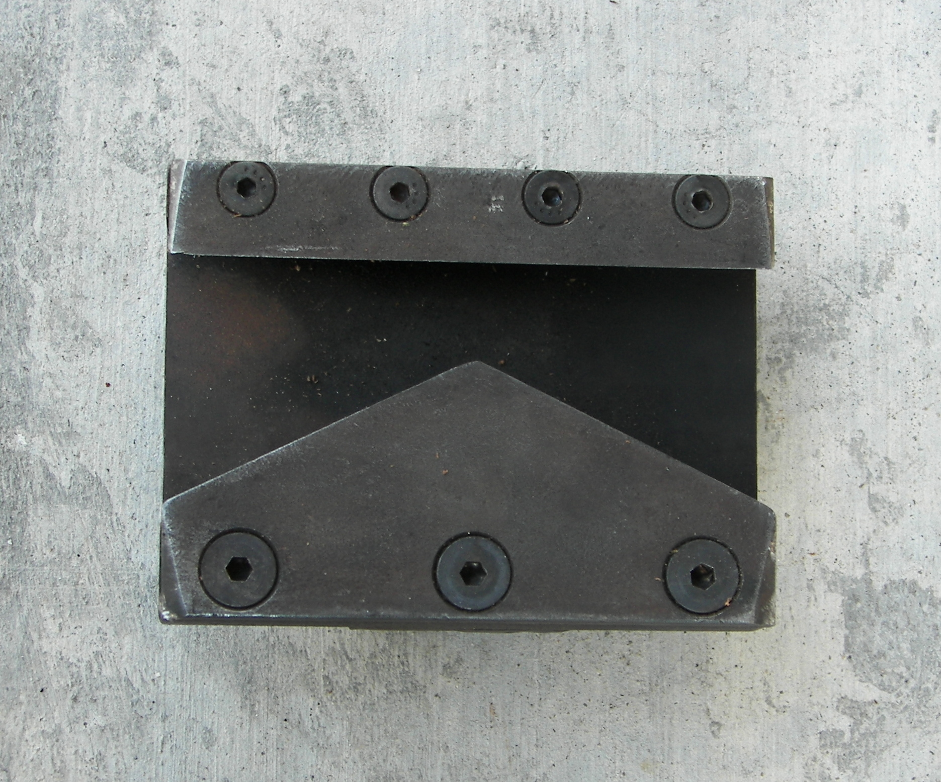 A K-Tool.